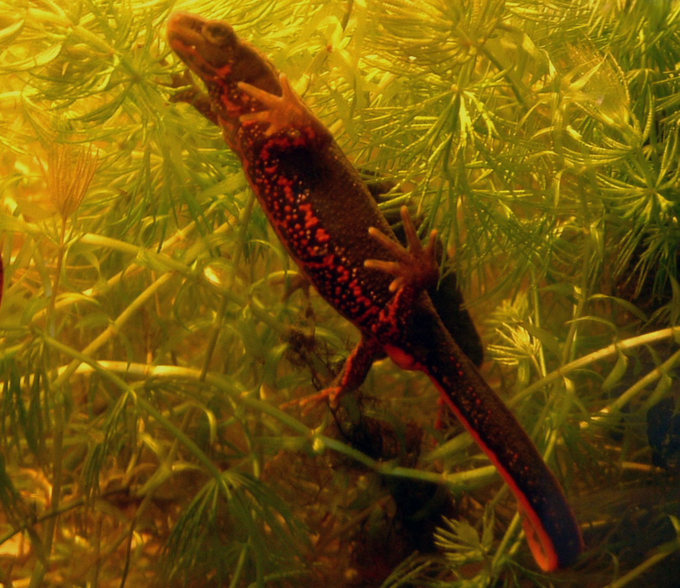 cynops pyrrhogaster sasayamae female